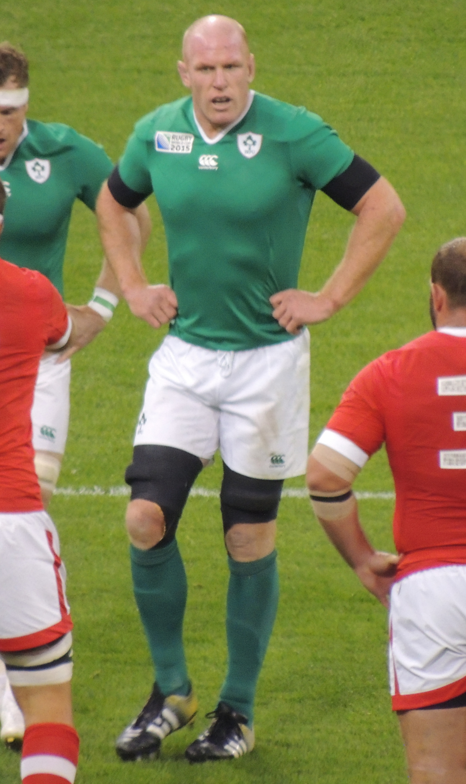 Irish rugby union player Paul O’Connell playing in 2015 Rugby World Cup game Ireland vs Canada at Millennium Stadium in Cardiff.